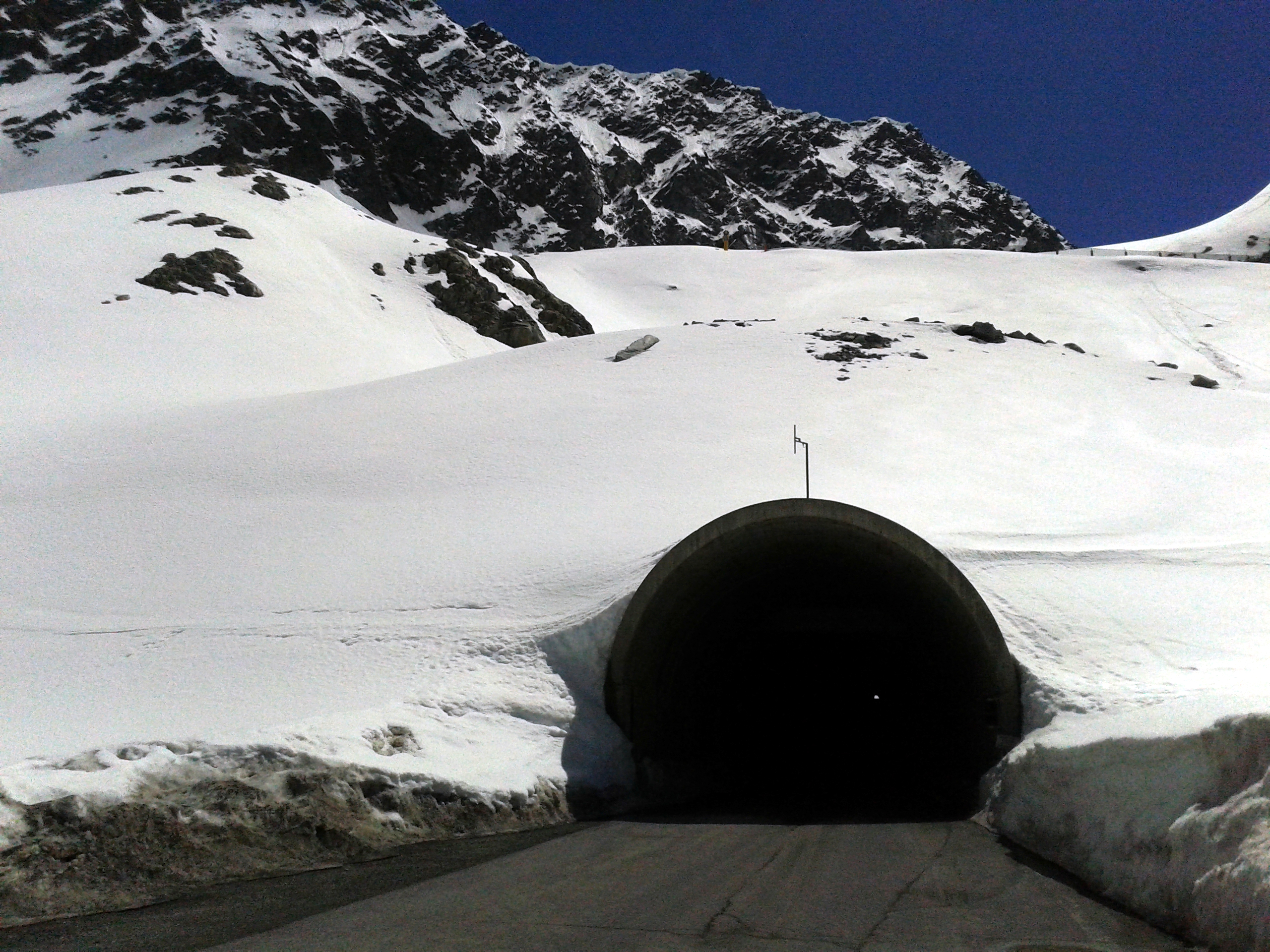 The northern portal of the road tunnel "Rosi-Mittermaier-Tunnel"